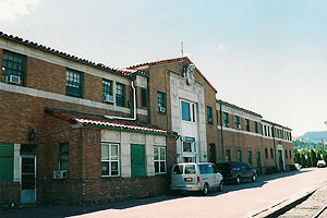 The La Grande station in Oregon, June 2003